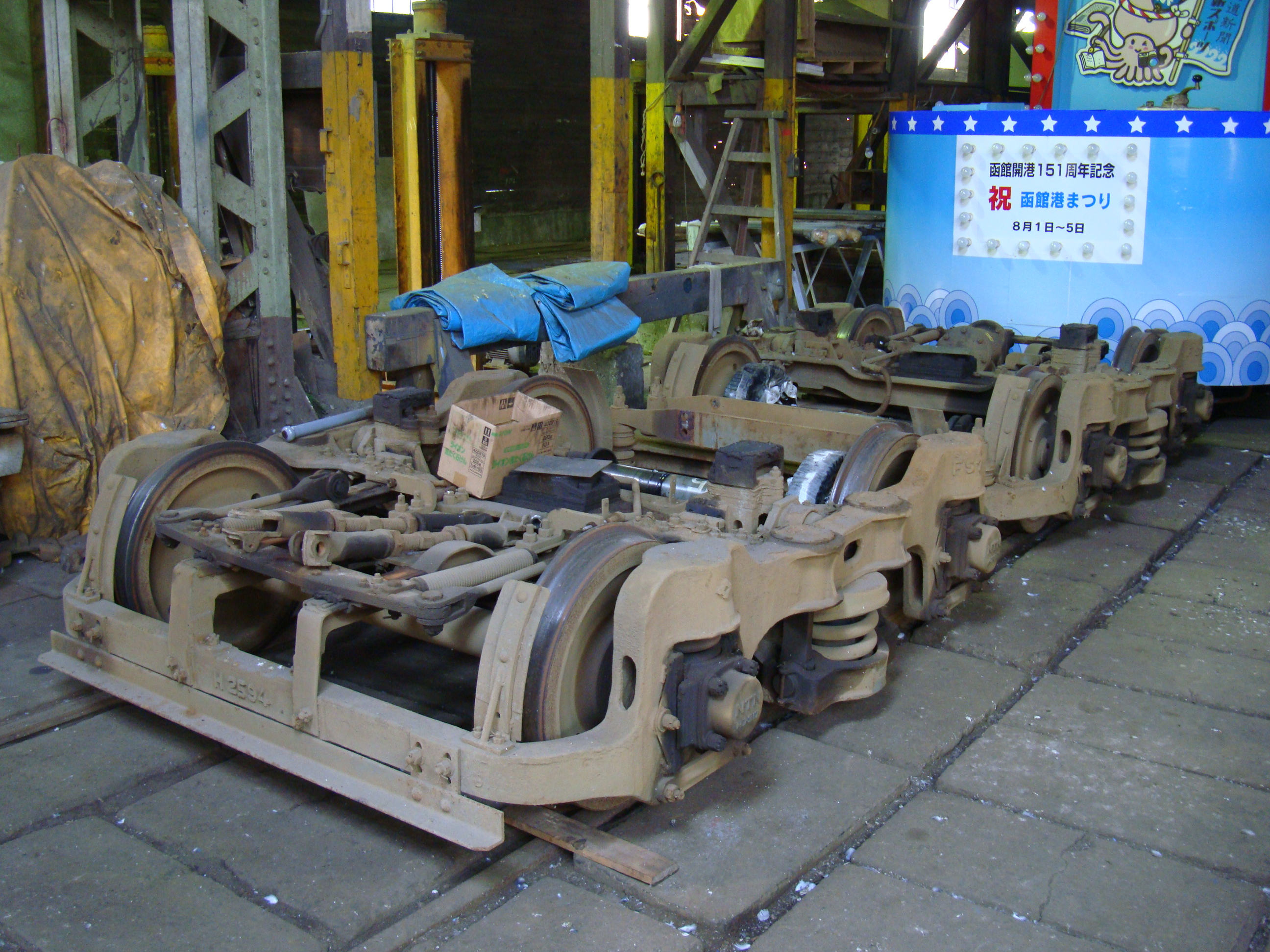 A truck of Hakodate City Transportation Bureau Type 710 No. 711, which was separated from the car body after scrapping. Photographed with special permission.